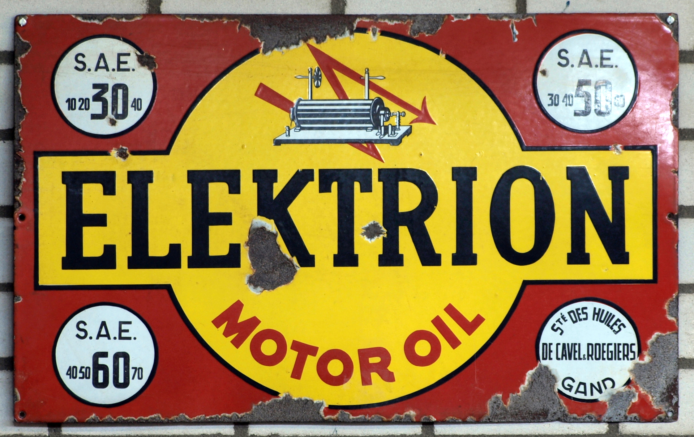 Photographed at the Den Hartogh Ford museum.